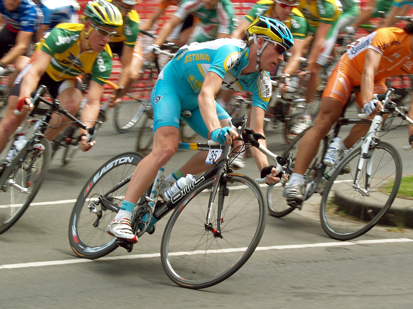 Australian cyclist Aaron Kemps (Team Astana) during Stage 7 of the 2007 Herald Sun Tour, Melbourne, Australia. Behind him is Chris Jongewaard (Jayco Australian National Team).